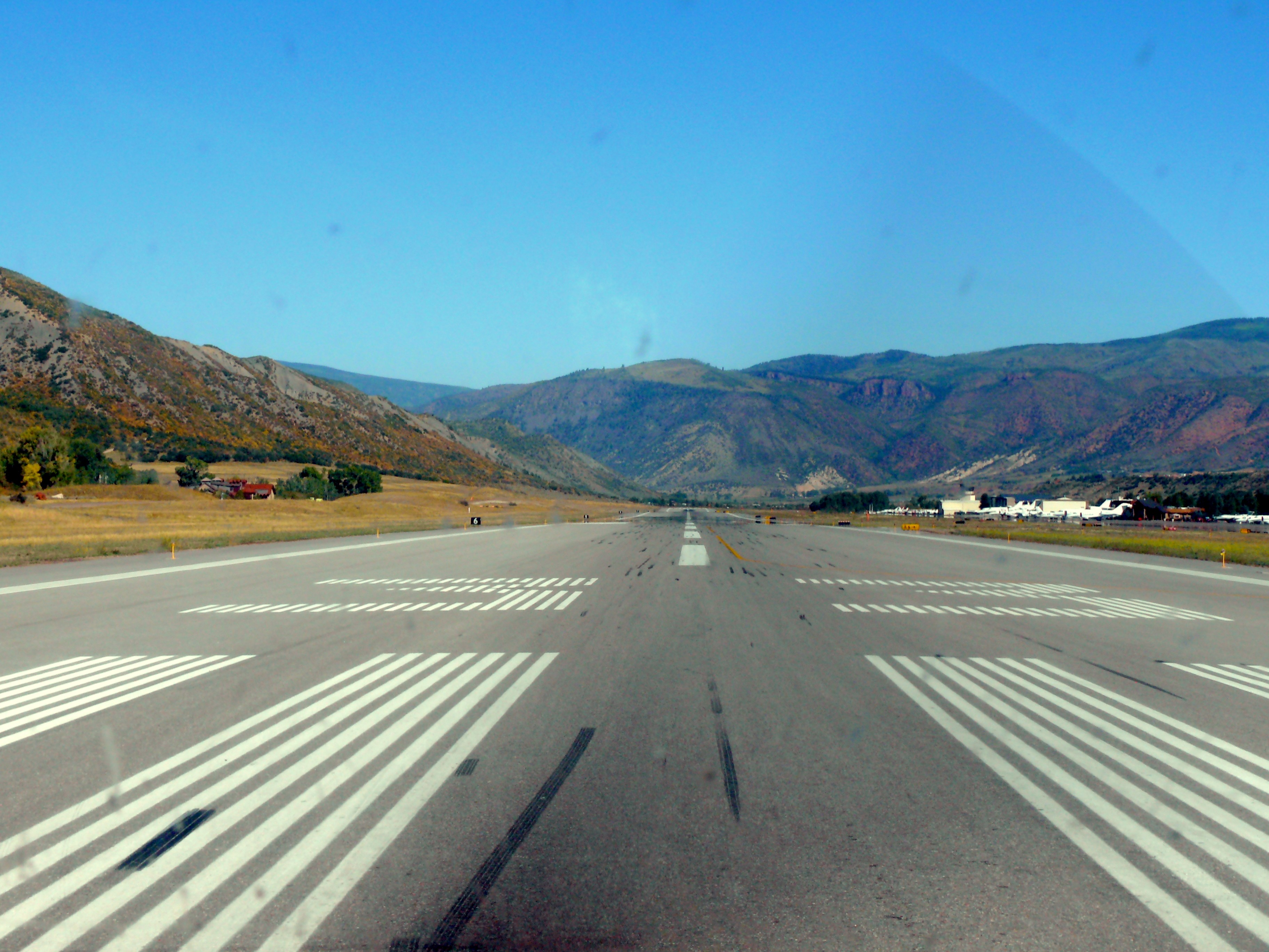 Taking off runway 33 at Aspen-Pitkin Airport